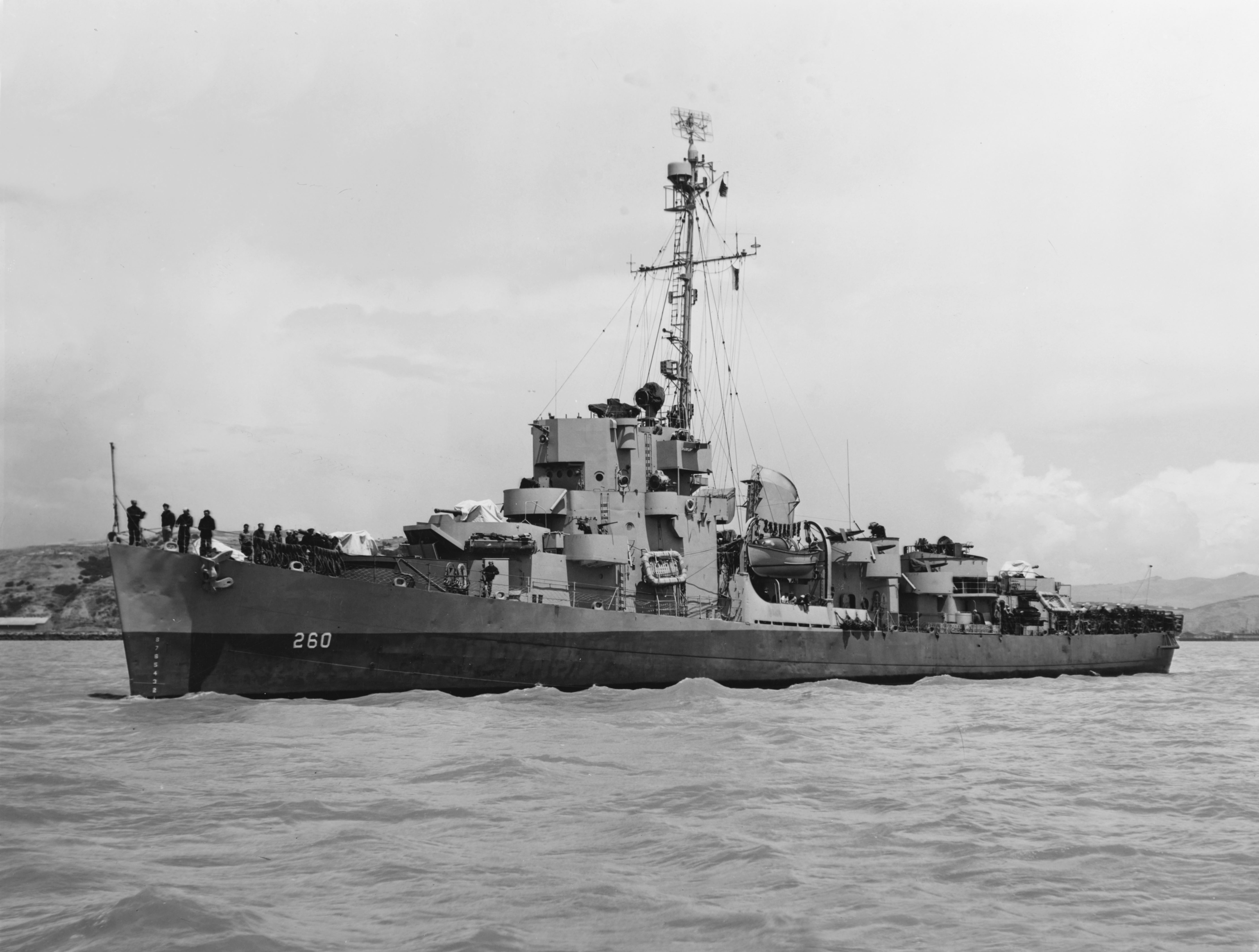 The U.S. Navy destroyer escort USS Cabana (DE-260) off the Mare Island Naval Shipyard, California (USA), on 18 May 1945.